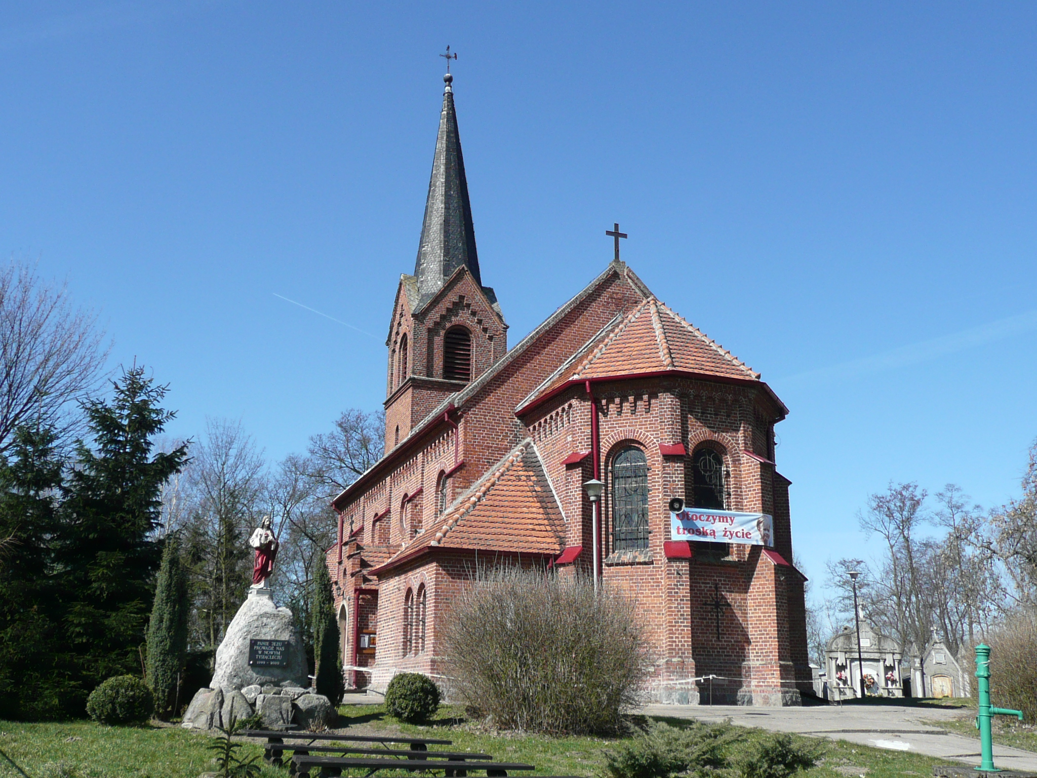 The church in Wenecja, Poland.